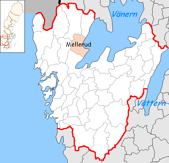 Mellerud Municipality in Västra Götaland County Designed by me. Mere outlines are a PD source from